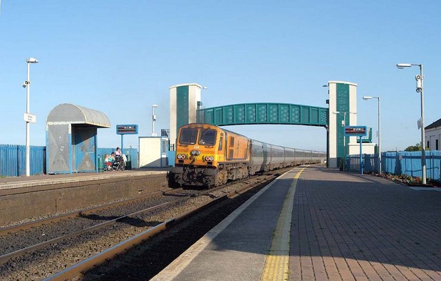 220 passing Laytown Station 220 at the rear of the 17:30 Belfast - Dublin Enterprise, passing Laytown Railway Station.